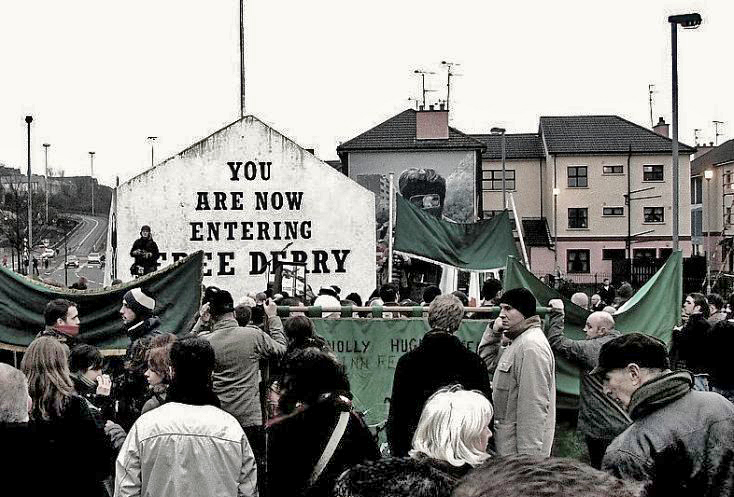 28.01.2007 Derry, Ireland Bloody Sunday 35th year's commemoration. At the end of the march people gather at Free Derry corner where the names of the victims are recalled; on the top of a building members of the bogside republican youth show anti-sinnfein signs, calling for a vote in favour of independent candidate Peggy O'Hara. Watch the video: Part of Occupied Ireland set